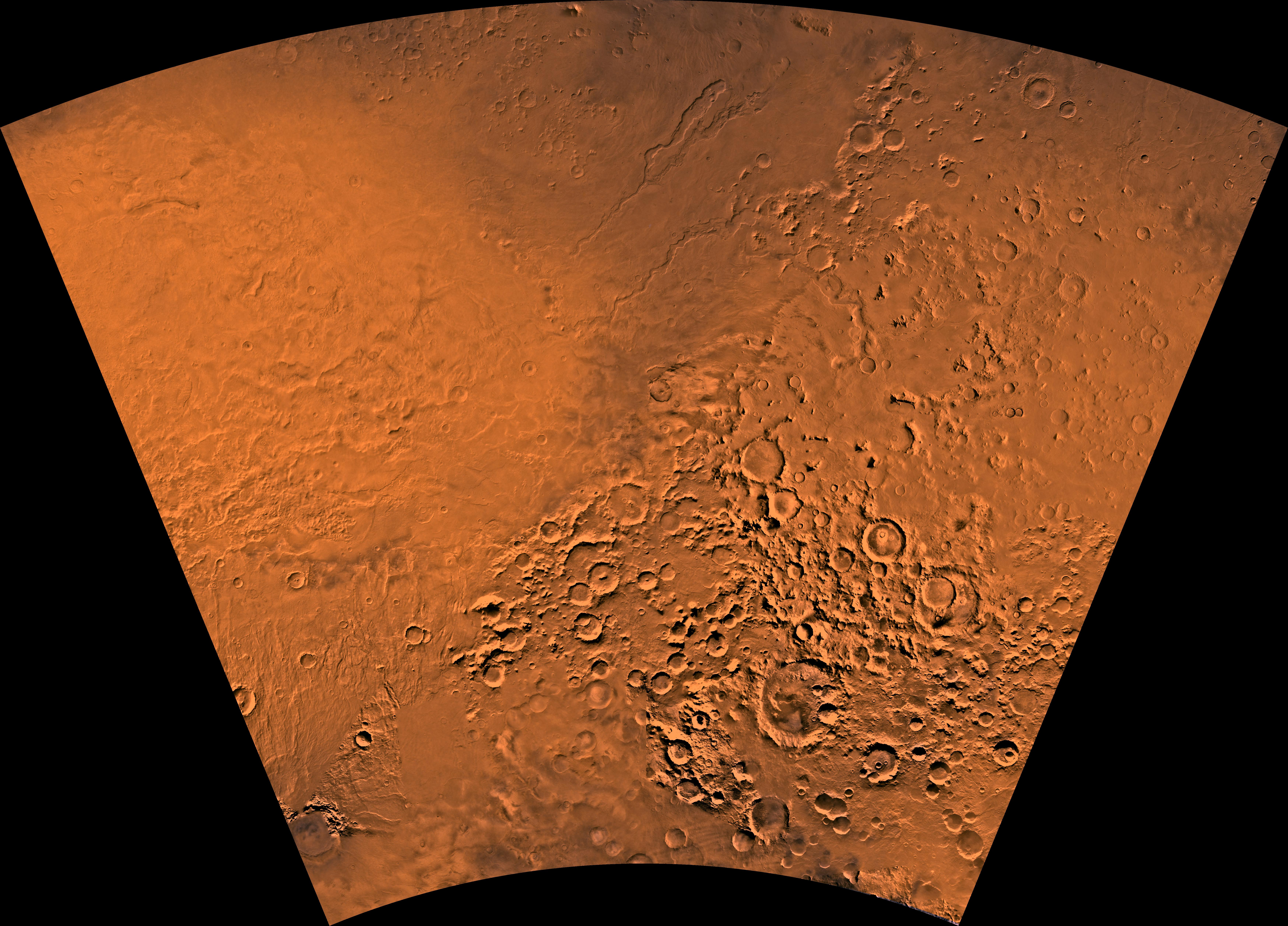 PIA00188: MC-28 Hellas Region Mars digital-image mosaic merged with color of the MC-28 quadrangle, Hellas region of Mars. The northwestern part includes the eastern half of the ancient large Hellas basin, defined by a rim of rugged mountain blocks that surrounds a nearly circular expanse of light-colored plains. The southwestern part is marked by part of the Amphitrites shield volcano and associated ridged plains that may be basaltic lava flows. The northern part includes a low, dissected shield volcano, Hadriaca Patera, and associated plains that may be basaltic lava flows. These plains are dissected in places by large sinuous channels. The eastern part is dominated by high-standing heavily cratered highlands, perhaps uplifted by the Hellas impact event. Latitude range -65 to -30 degrees, longitude range -120 to -60 degrees.